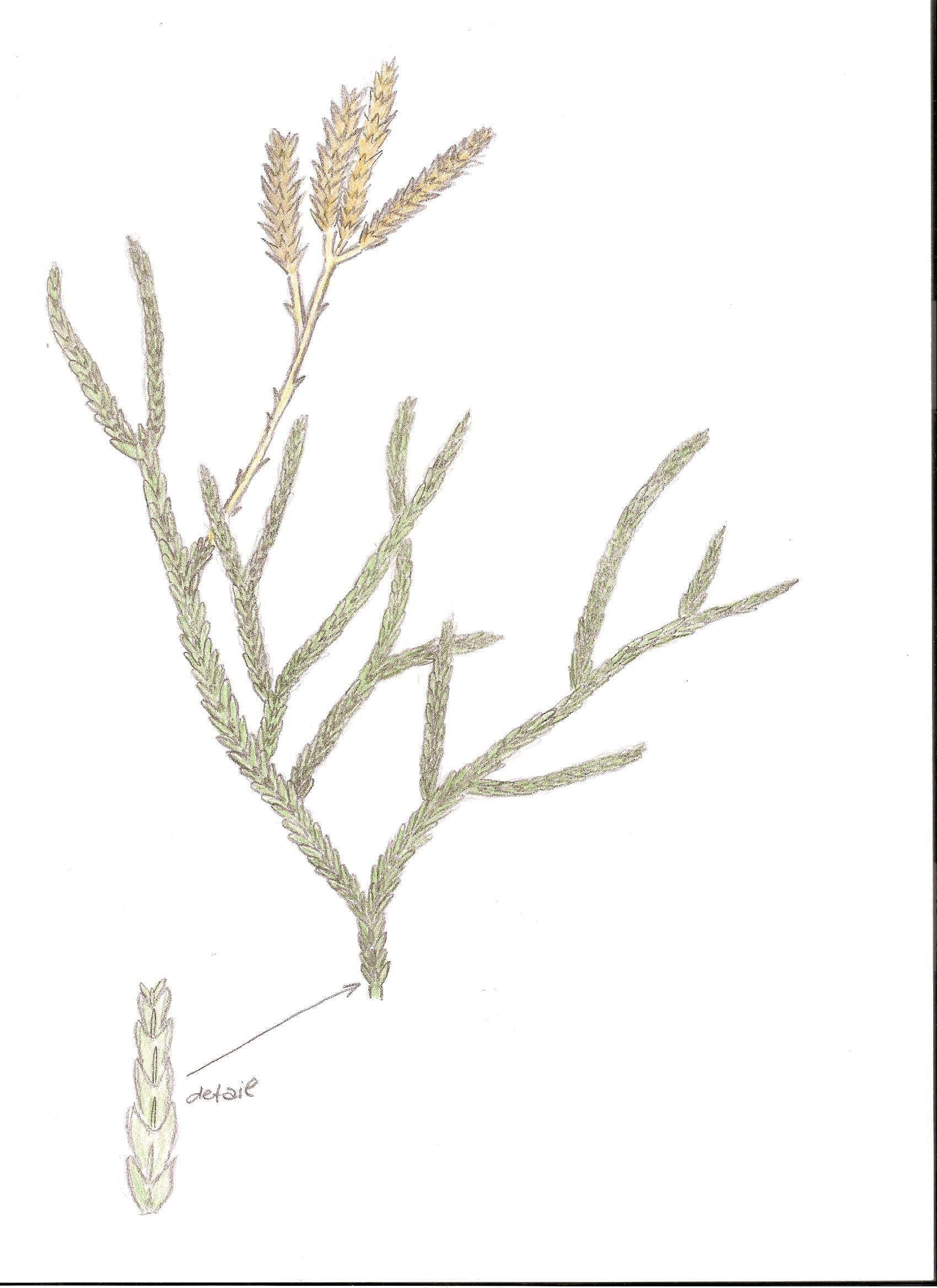 Diphasiastrum complanatum Česky: Diphasiastrum complanatum